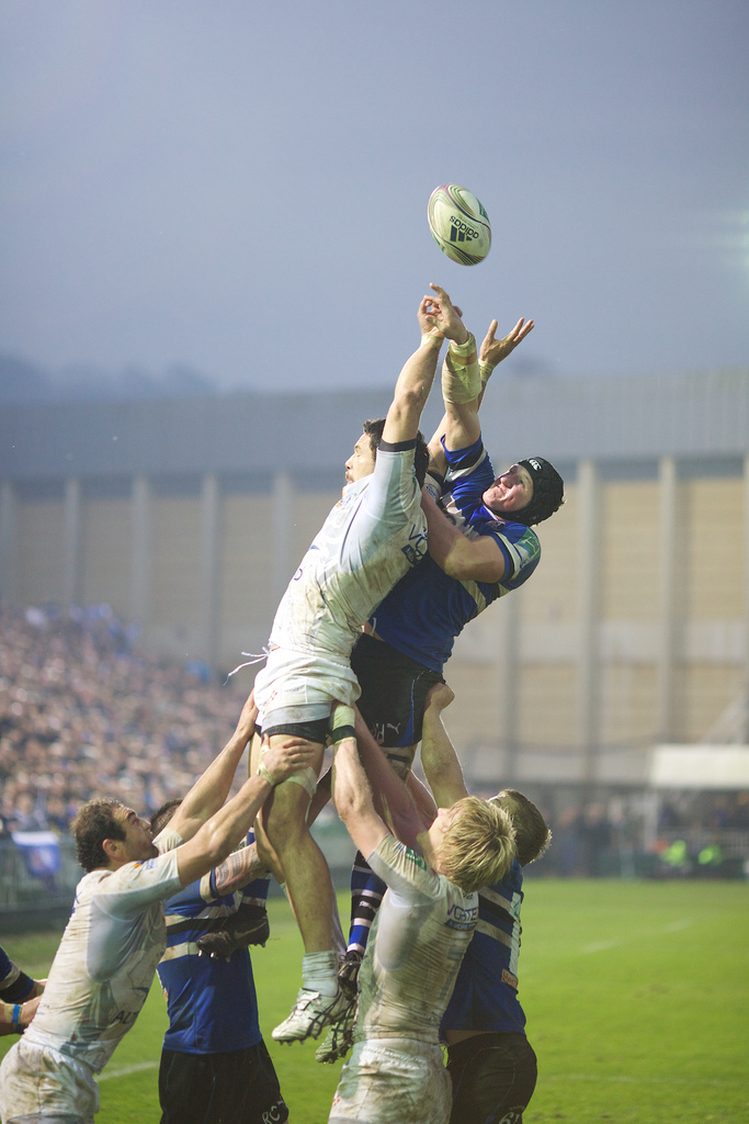 Line-out during HCup game between Bath and Montpellier.